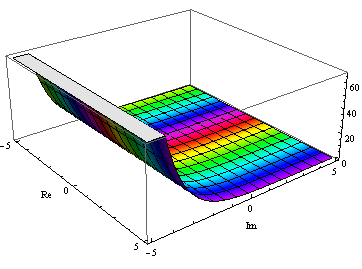 function cis[z] in the complex plane (coloring plot 3D)